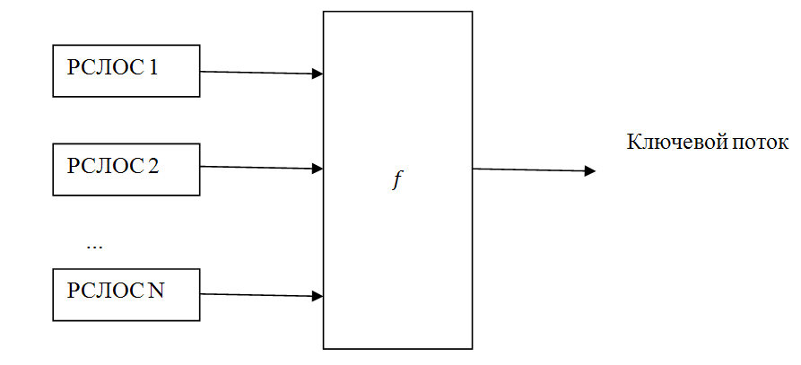 Nonlinear generator